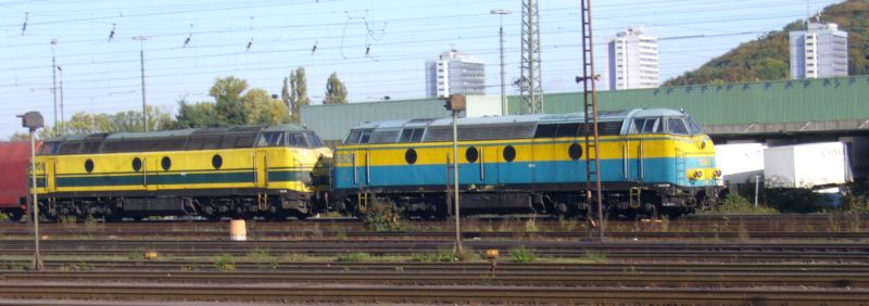 photographed by myself , michael bienick